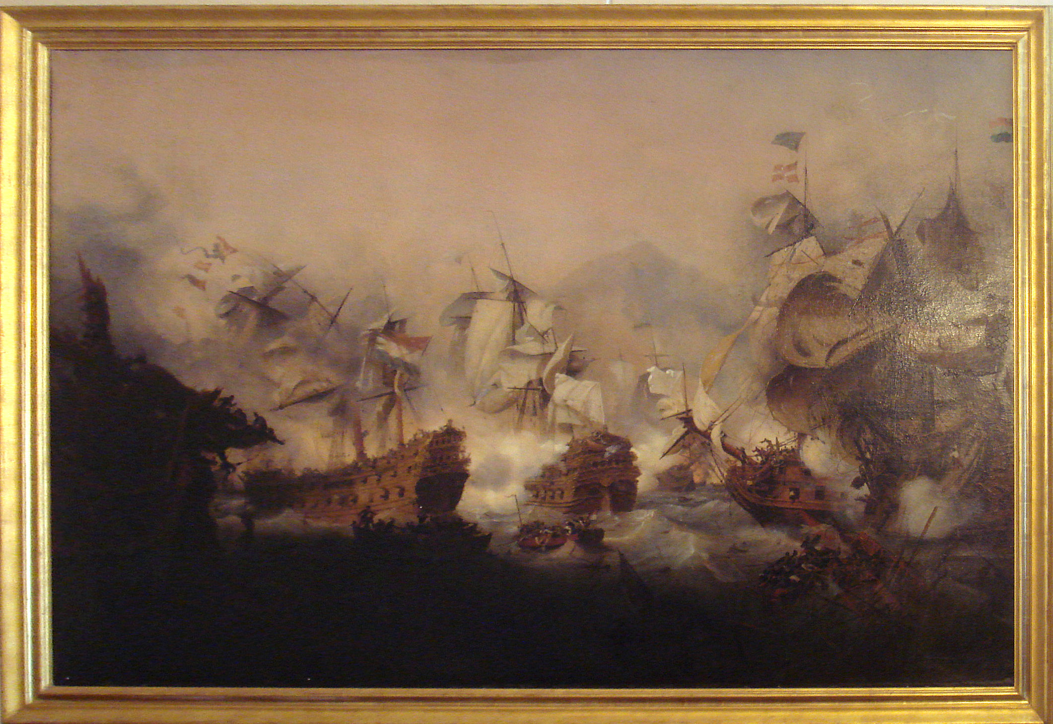 Naval_Battle_of_Augusta_by_Ambroise-Louis_Garneray.